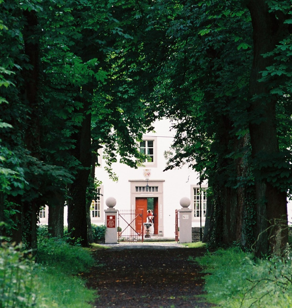 Castle Schloss Auel near Lohmar-Wahlscheid, former access road throug the avenue